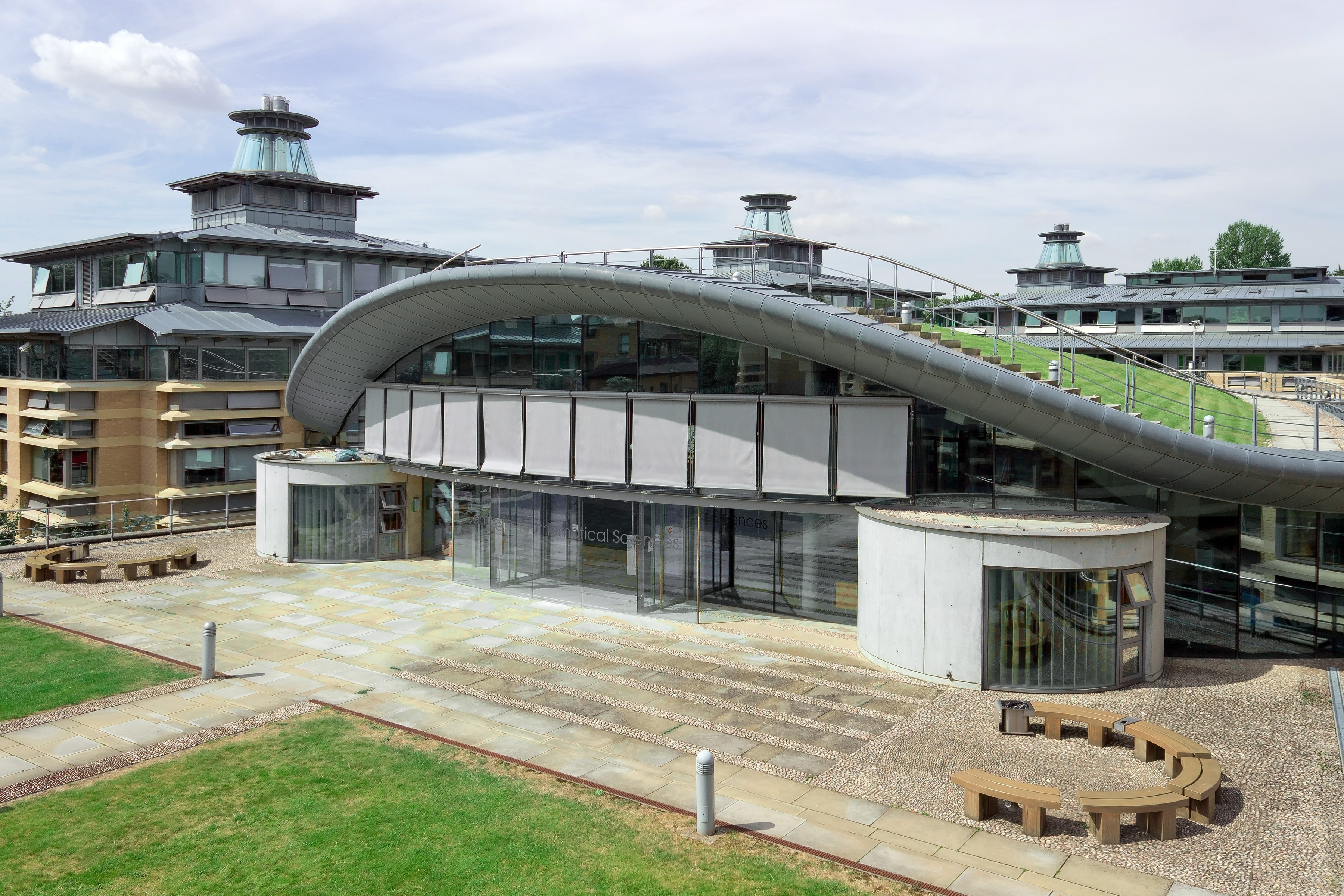 Central Core, Centre for Mathematical Sciences, University of Cambridge